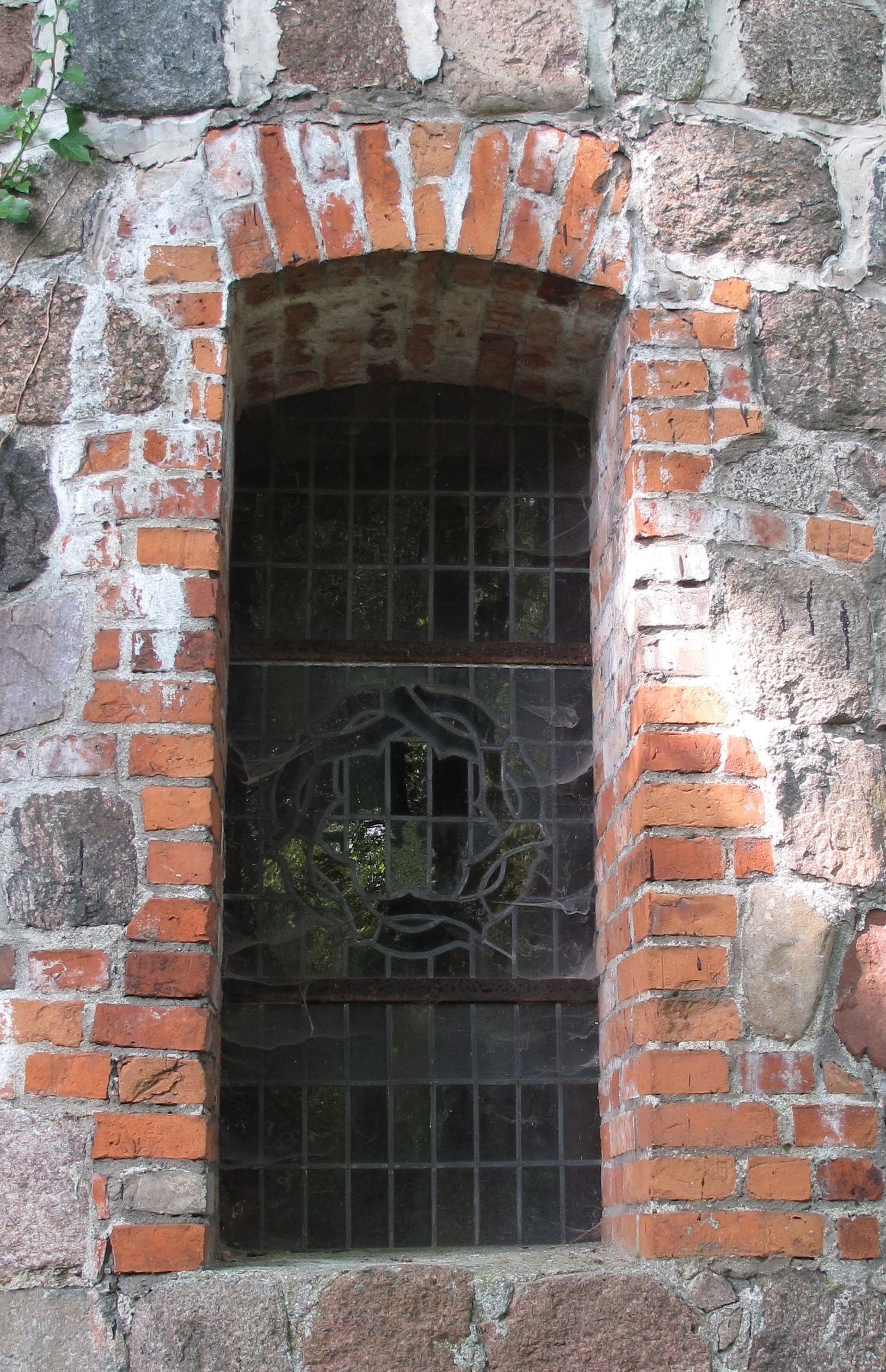 Listed village and Fieldstone church in Grunow, a village of the municipality Oberbarnim in the District Märkisch-Oderland, Brandenburg, Germany. The church was built in the 13th-century. It has the unusually high number of seven Schachbrettsteinen (german for: chessboard stones) and an in this region unique stone with the Jerusalem cross.